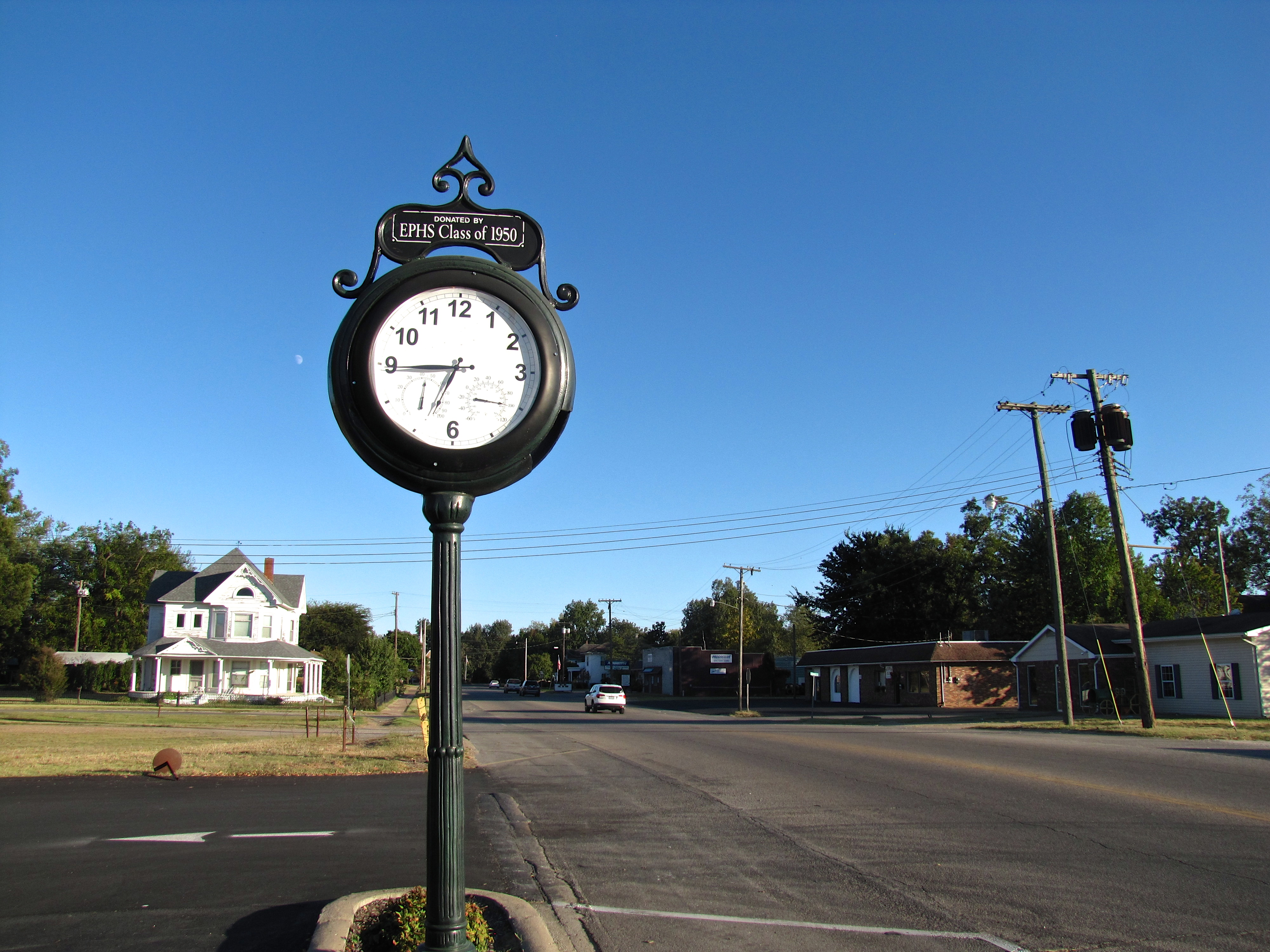 Street clock along Washington Street in East Prairie, Missouri, United States.